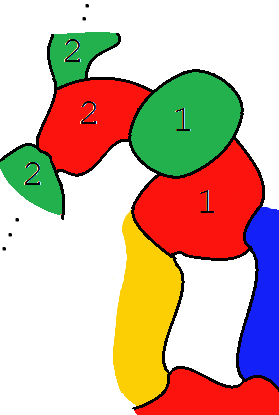 This is an illustration for Kempe's false proof of the four color theorem.